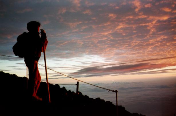 Sunrise near the summit of Mt. Fuji.